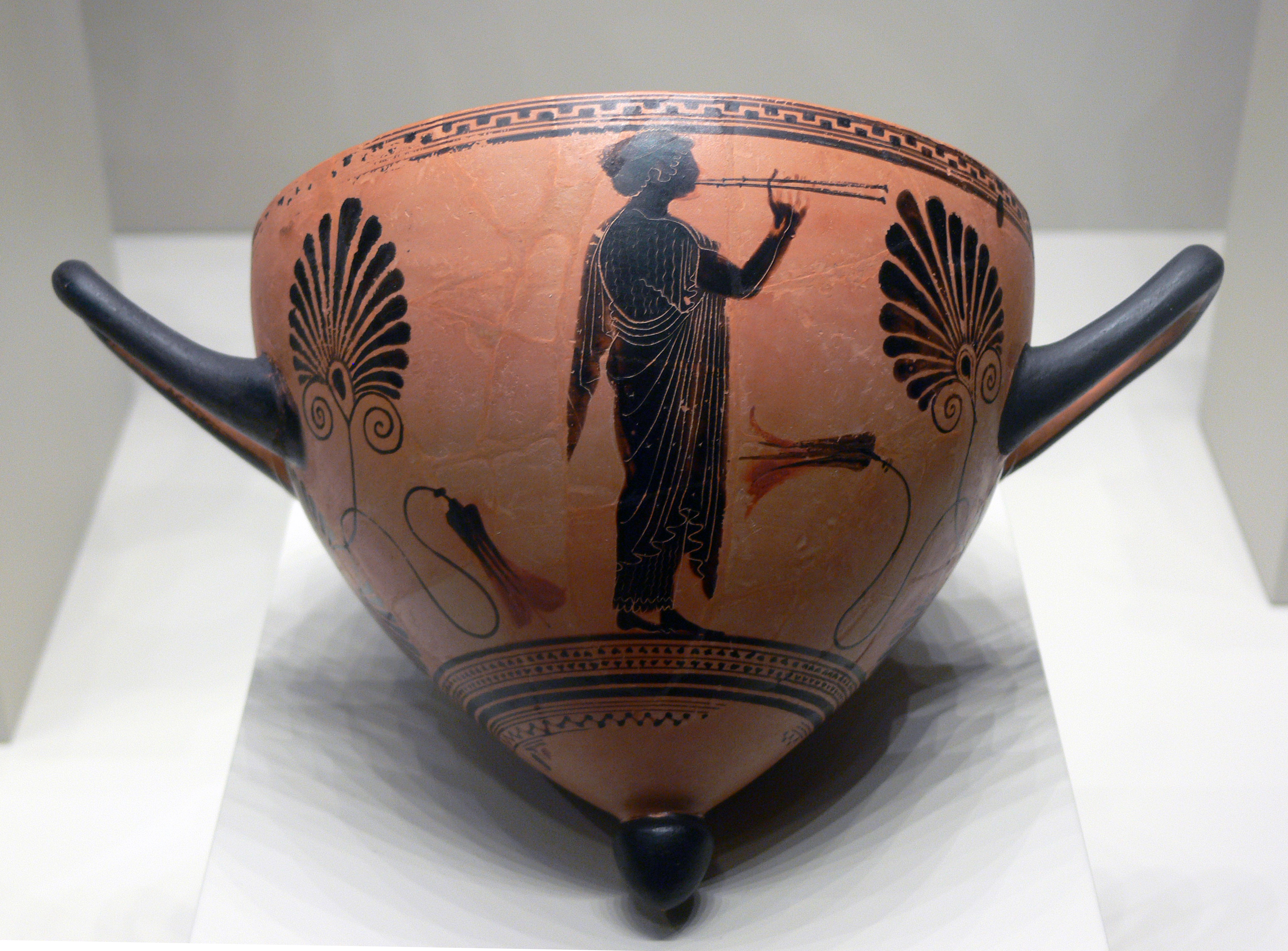 Cup with a young woman playing the pipes.